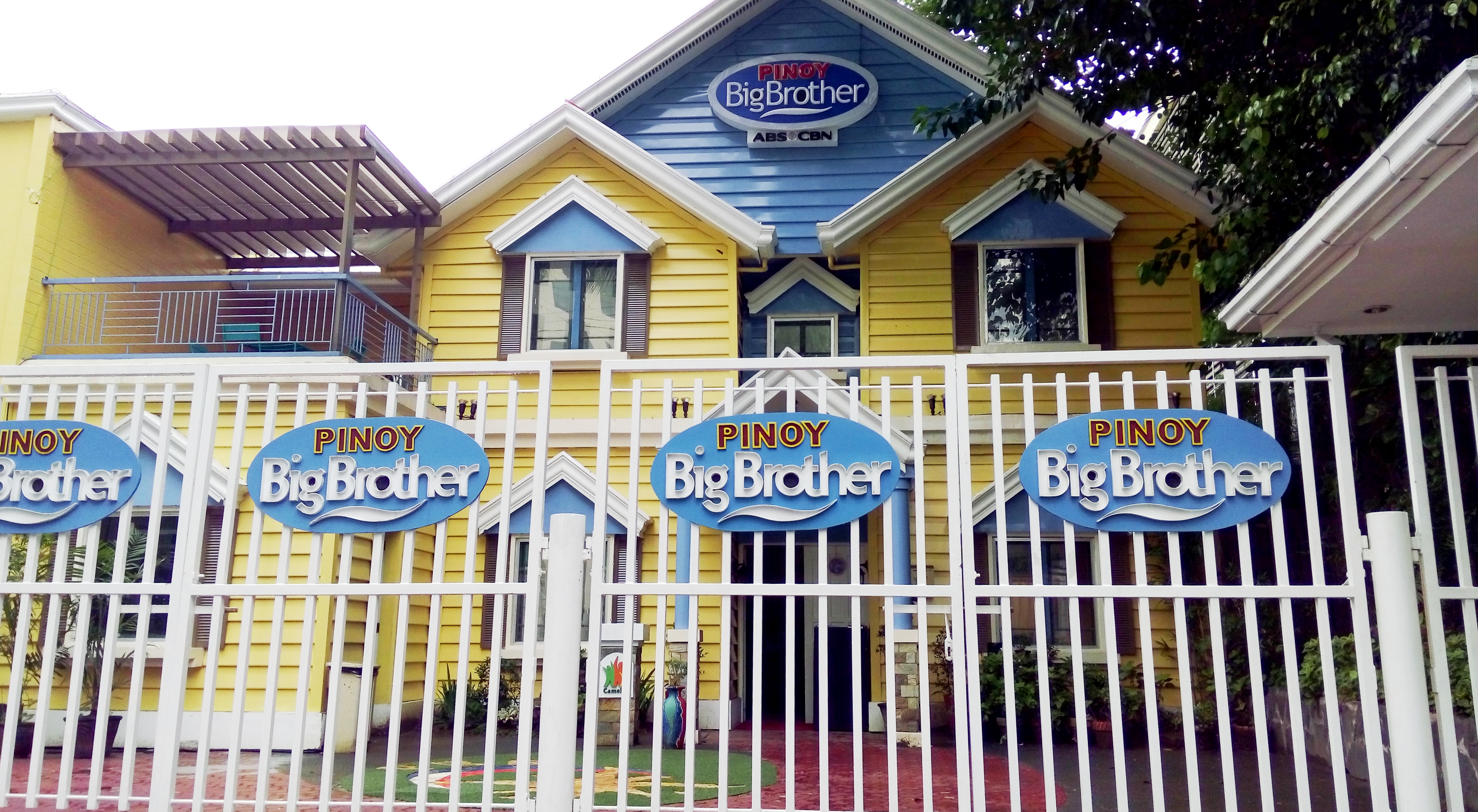 Pinoy Big Brother House after the renovations in 2011.